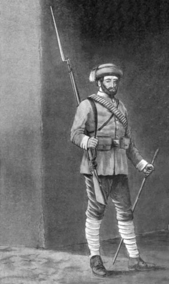 Afghan Army - infantry soldier (1890s)